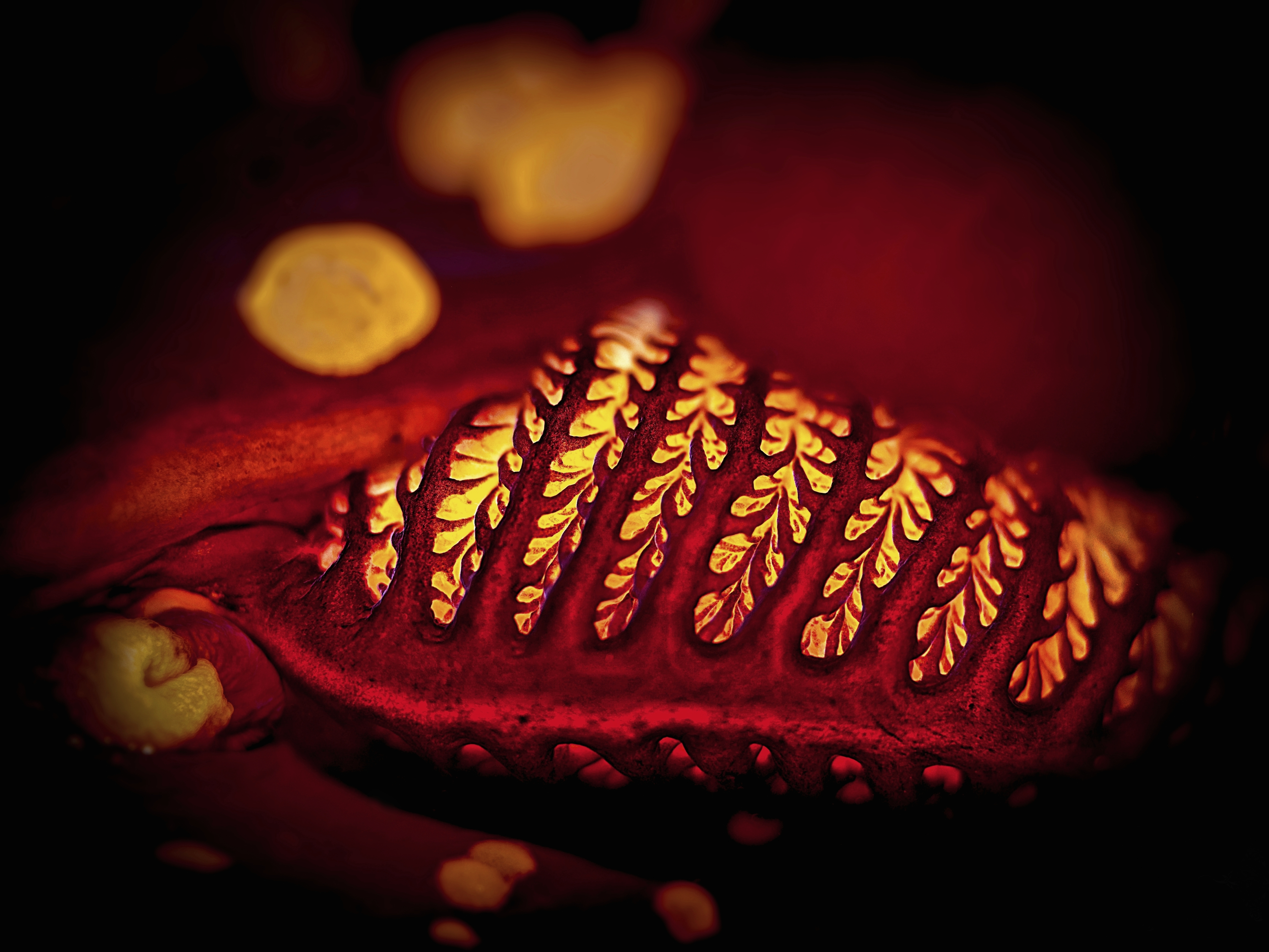 Close-up on the side gill of a pleurobranch sea slug Berthella martensi (Pilsbry, 1896).